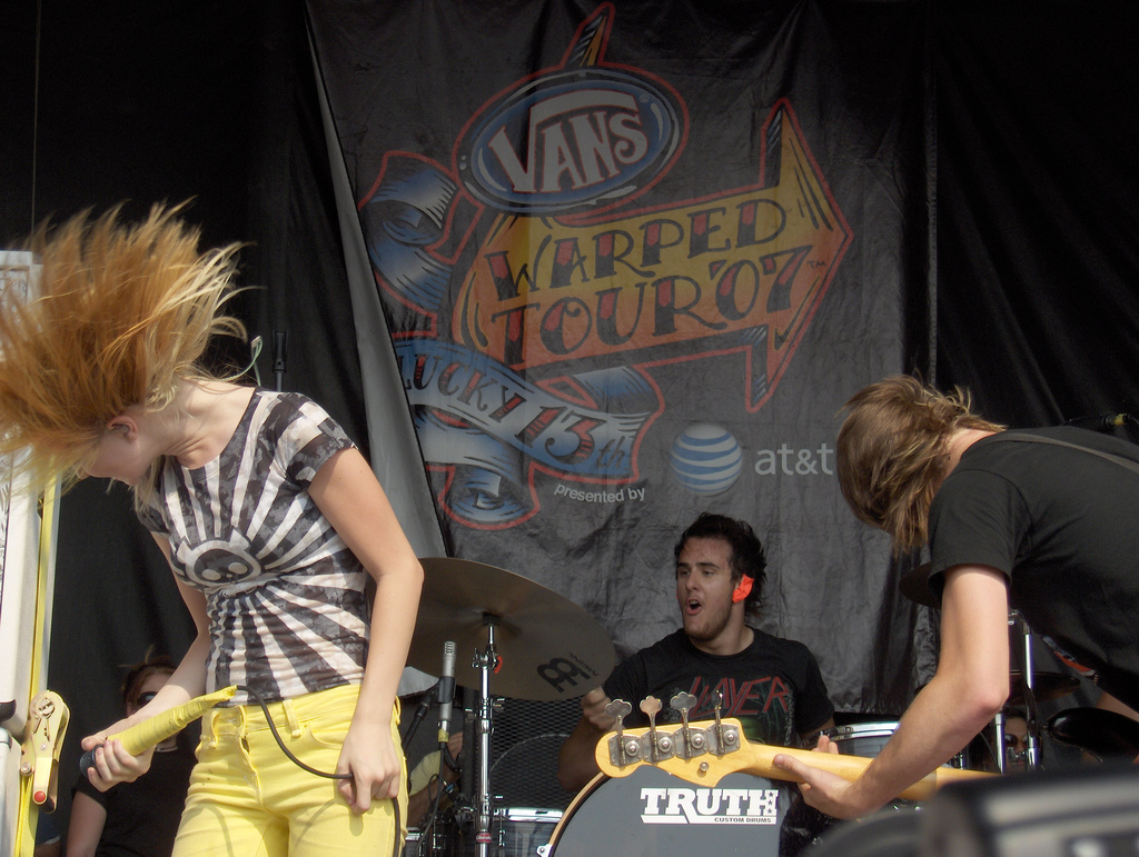 Paramore at Warped Tour 2007.